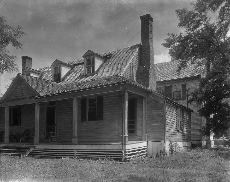 "Plain Dealing," located near Keene, Albemarle County, Virginia, by the American photographer and photojournalist Frances Benjamin Johnston. This 8 x 10 safety film negative is dated 1933. It forms part of the Johnston archive at the Library of Congress, to which the photographer bequeathed her works in perpetuity, hence there are no restrictions on publication. Image courtesy of the Prints and Photographs Division, Library of Congress, Washington, D.C.